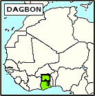 Kingdom of Dagbon (Northern Territories) locator map